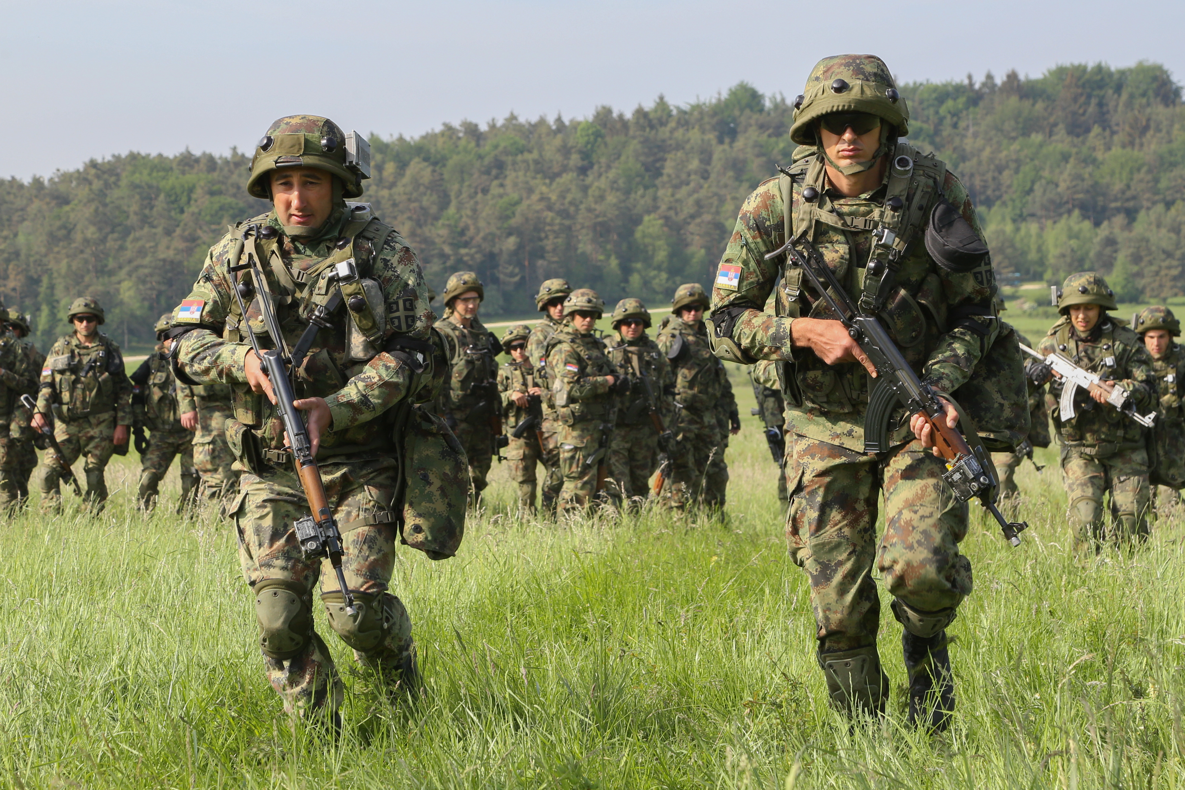 Serbian soldiers of the 1st Company, 31st Battalion, 3rd Brigade cold load onto a CH-47 Chinook helicopter during exercise Combined Resolve IV at the U.S. Army’s Joint Multinational Readiness Center in Hohenfels, Germany, May 22, 2015. Combined Resolve IV is an Army Europe directed exercise training a multinational brigade and enhancing interoperability with allies and partner nations. Combined Resolve trains on unified land operations against a complex threat while improving the combat readiness of all participants. The Combined Resolve series of exercises incorporates the U.S. Army’s Regionally Aligned Force with the European Activity Set to train with European Allies and partners. The 7th Army JMTC is the only training command outside the continental United States, providing realistic and relevant training to U.S. Army, Joint Service, NATO, allied and multinational units, and is a regular venue for some of the largest training exercises for U.S. and European Forces. (U.S. Army photo by Pfc. Courtney Hubbard/Released)